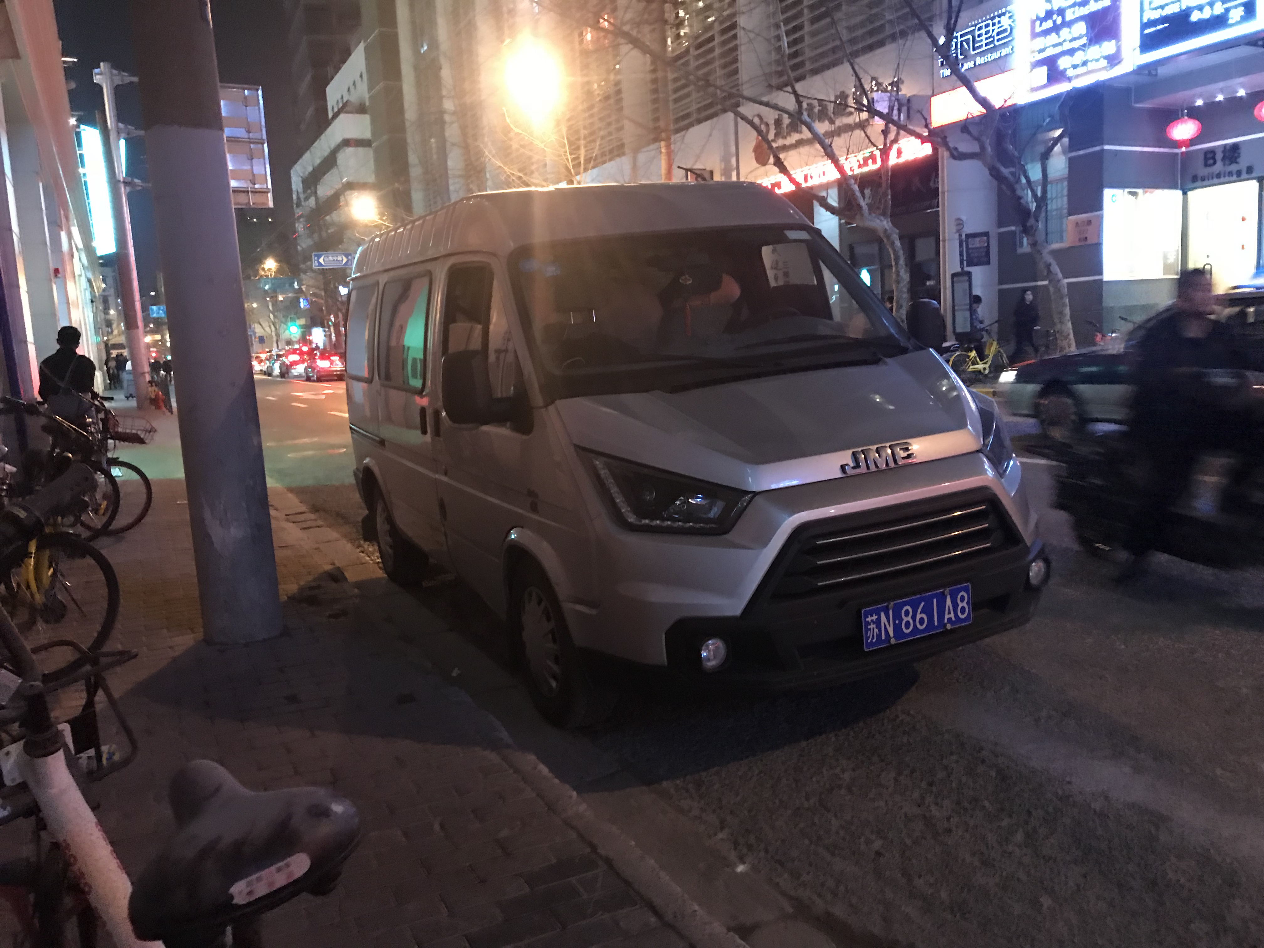 JMC Transit